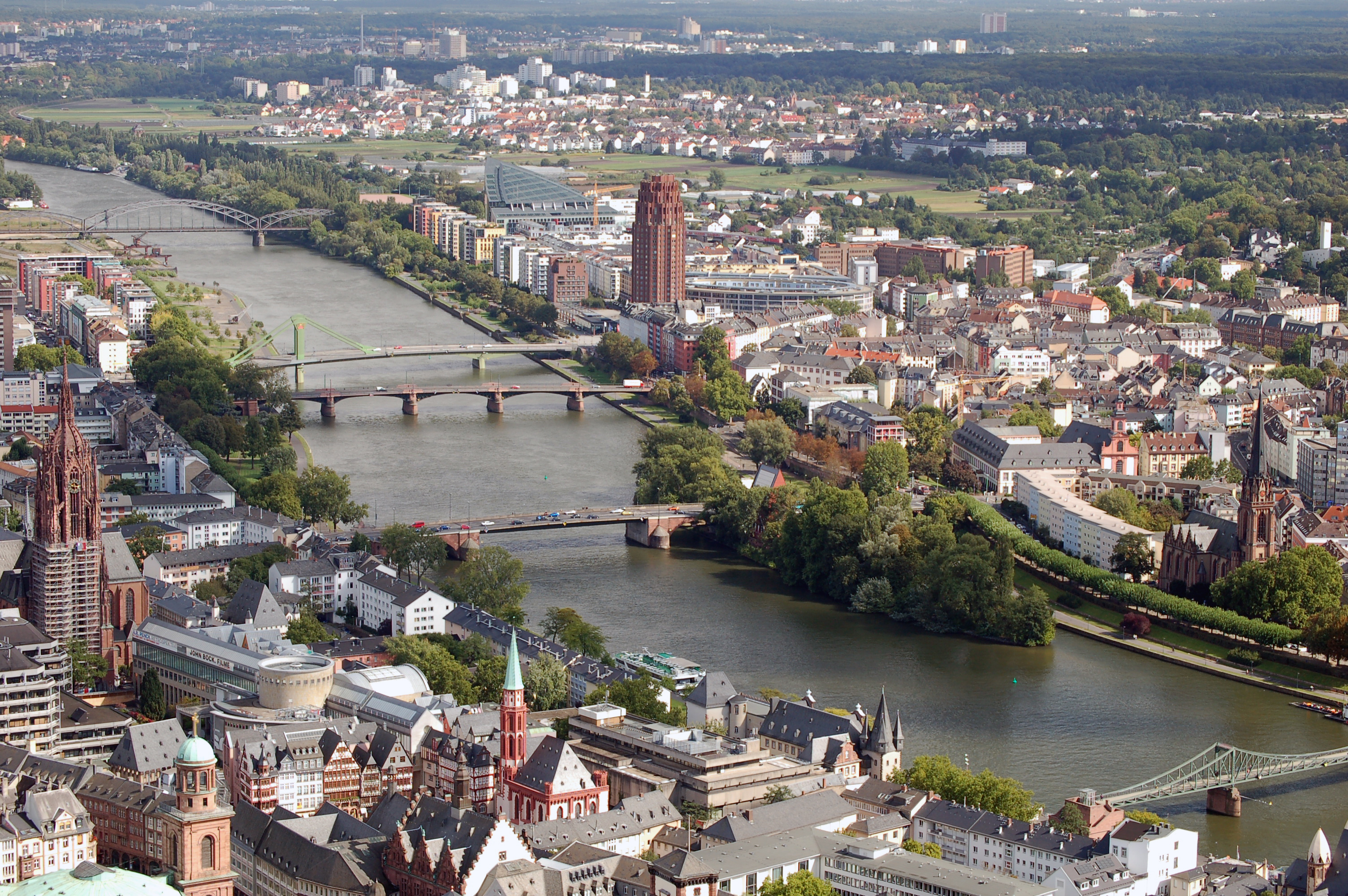 Bridges across the Main in Frankfurt. From top left to down right (downstream): Deutschherrnbrücke, Flößerbrücke, Ignatz-Bubis-Brücke, Alte Brücke, Eiserner Steg.